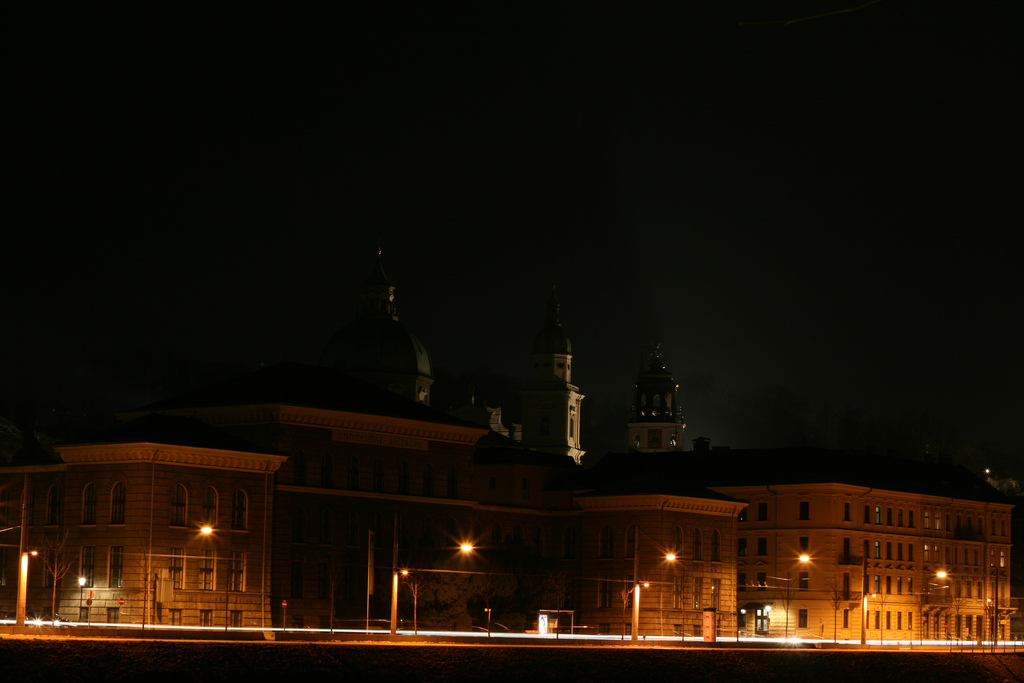 Salzburg Night